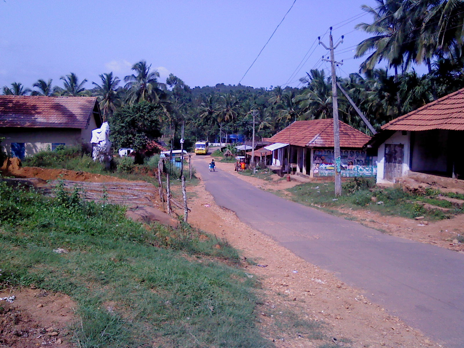 Valavayal,Kenichira, Wyanad, Kerala,India.